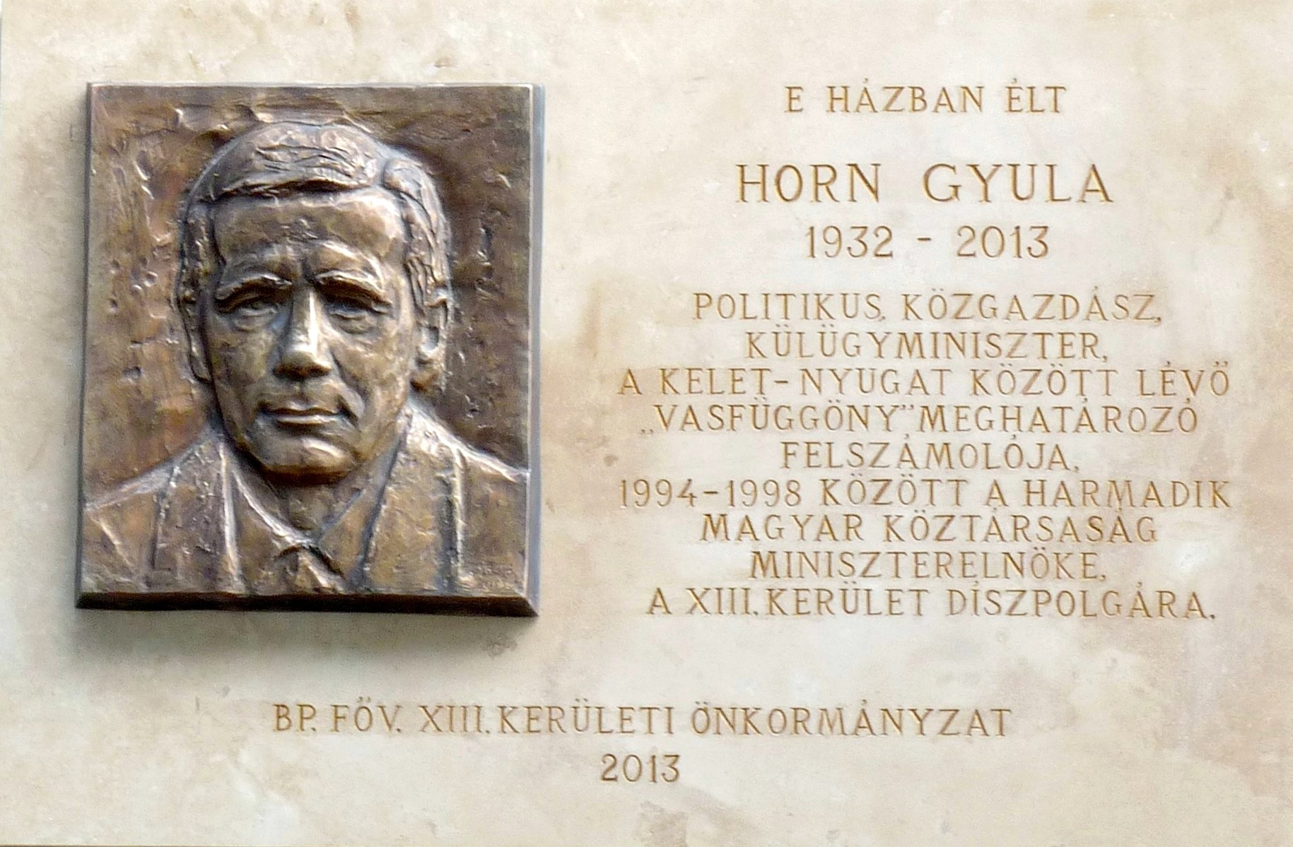 Commemorative plaque to Mr. Gyula Horn (1932–2013) Hungarian politician, former Prime Minister and freeman of the 13th district of Budapest. It was affixed on the wall of his former home on September 11, 2013. Author of the bronz relief is Mr. István Buda. (Budapest, District XIII, Újpesti Quay Nr 11)